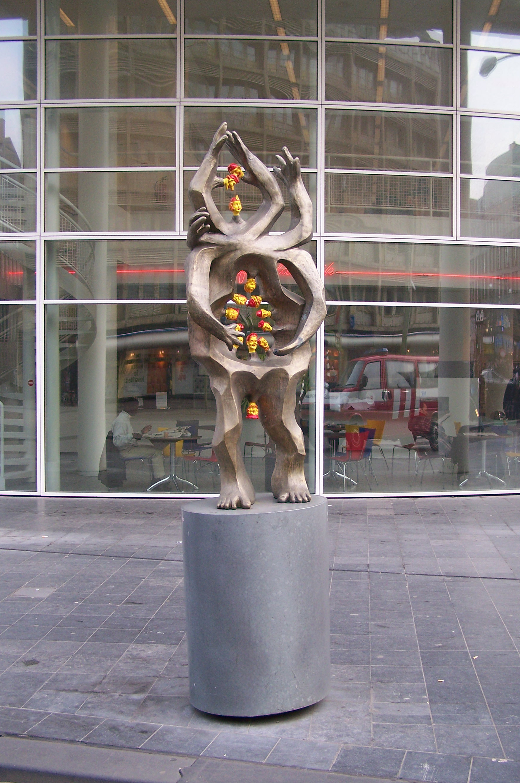 Sculpture "Tantratrijn" made by Rob Birza and placed at the Kalvermarkt in The Hague in 2007. Part of the Sokkelplan.